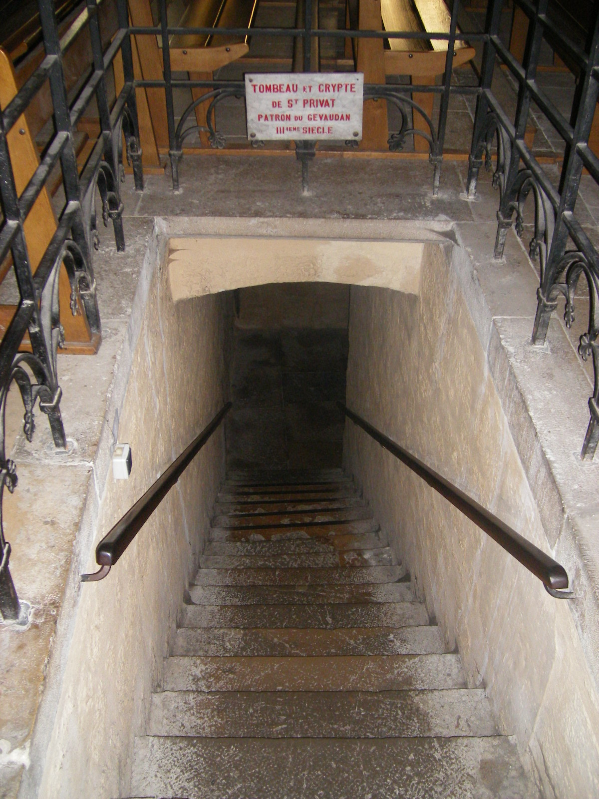 Mende - Cathedral, Tomb of Saint Privat